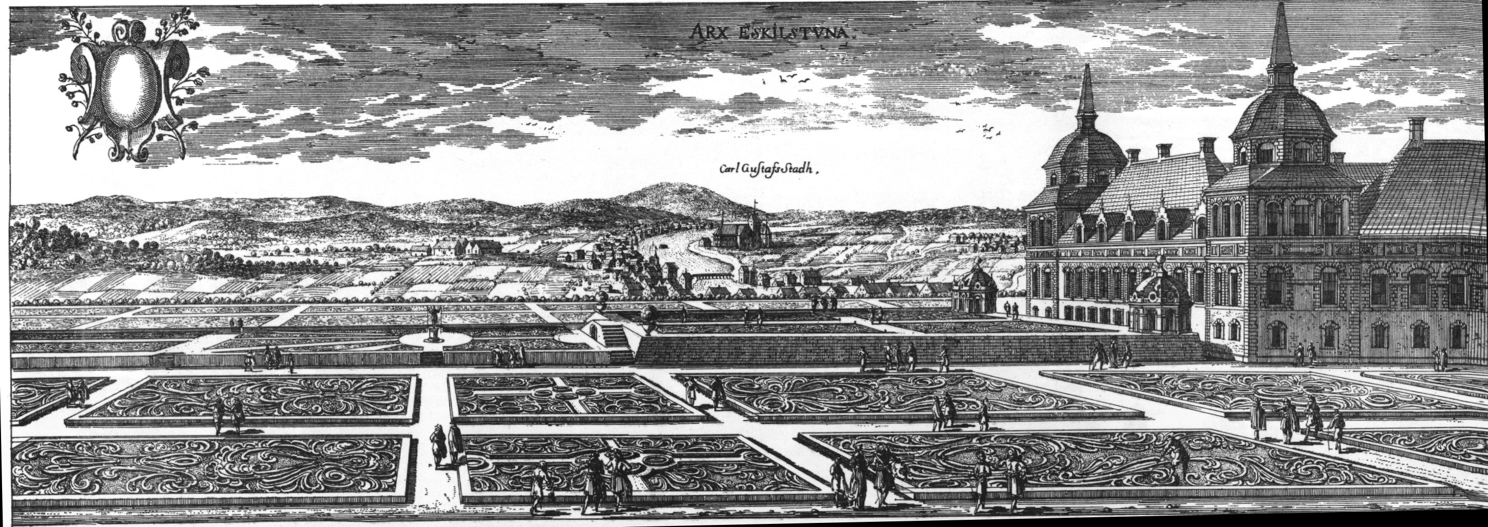 The former Eskilstuna House and Baroque gardens. A Royal palace—castle located at Eskilstuna, in Sweden.